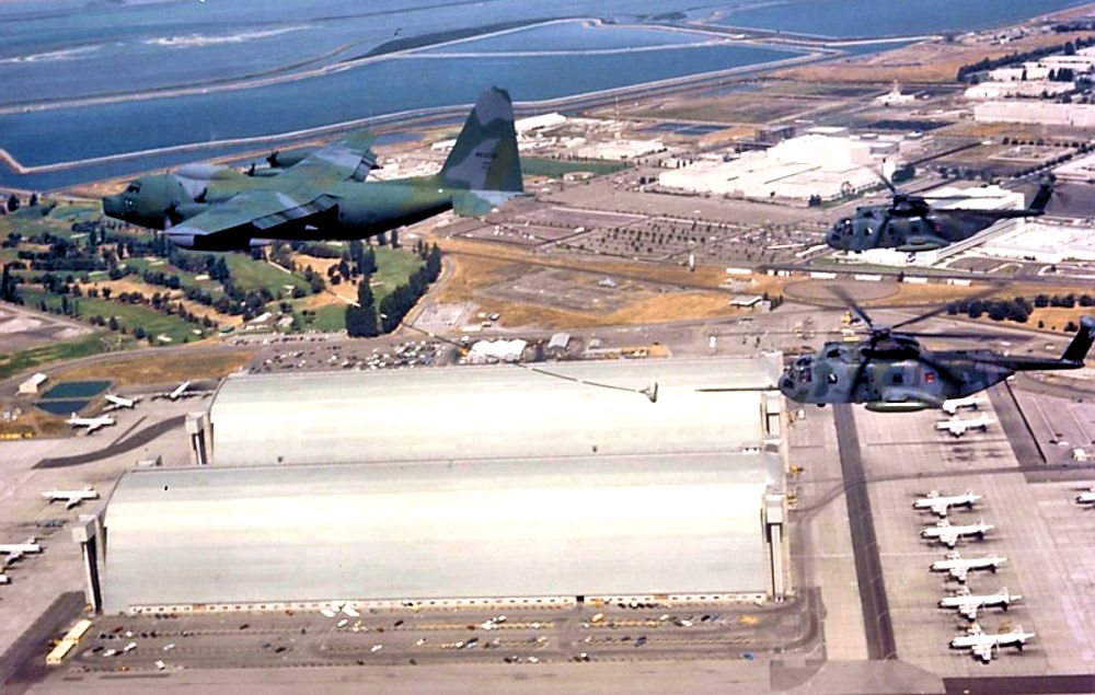 129th Air Rescue Squadron - Aircraft - 1990